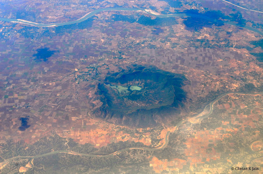 The Ramgarh Crater as seen from a jet aeroplane flying almost 9000ft